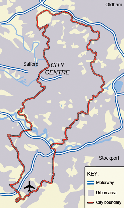 Map of the City of Manchester and surrounding area, in North West England, United Kingdom